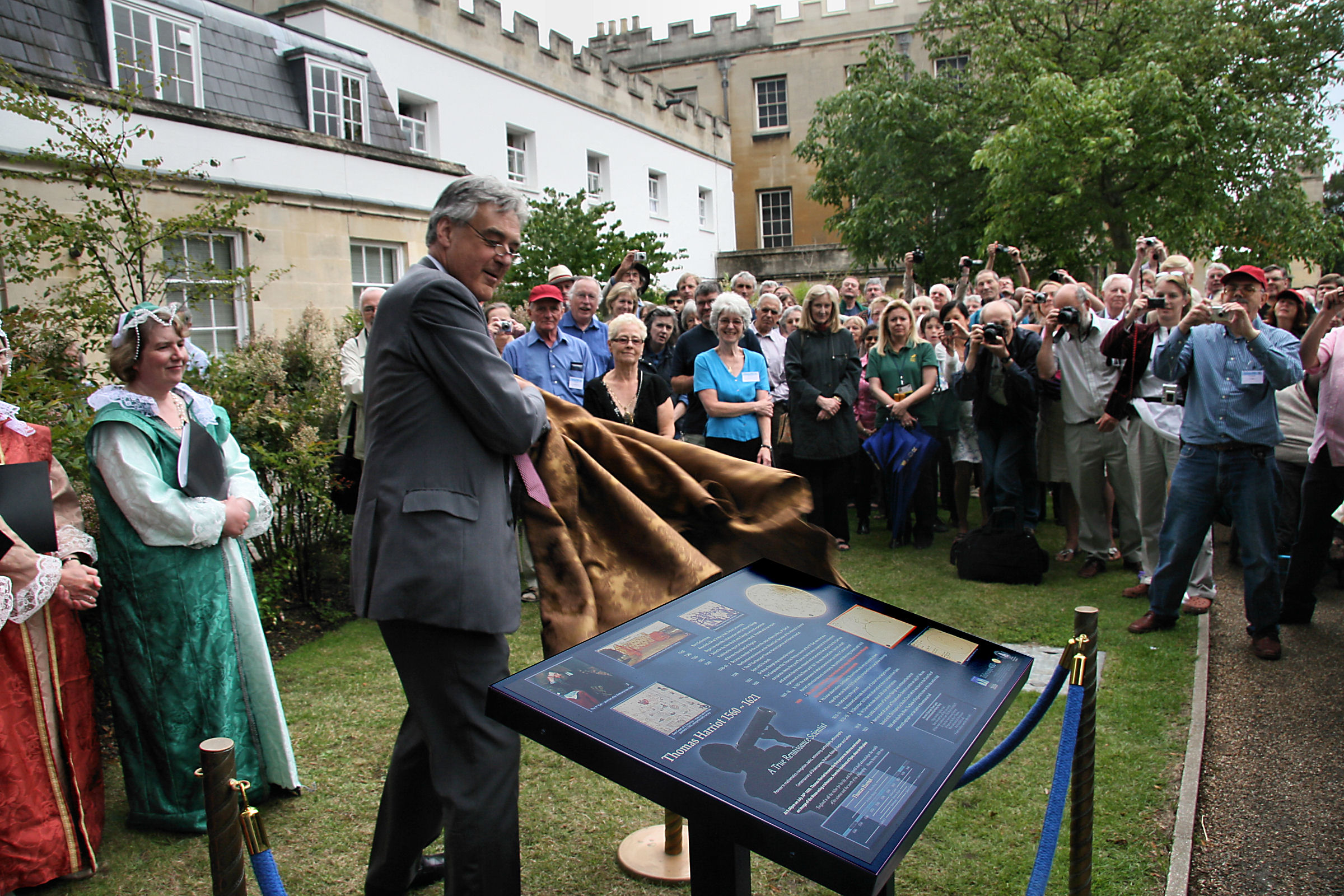 This plaque was erected in July 2009 in the grounds of Syon House (West London) to commemorate the 400th anniversary of Thomas Harriot's drawings of the moon using a telescope. This is generally considered to be the first astronomical use of the Telescope. Lord Egremont owns the original drawings by Thomas Harriot and hence agreed to perform the ceremony.